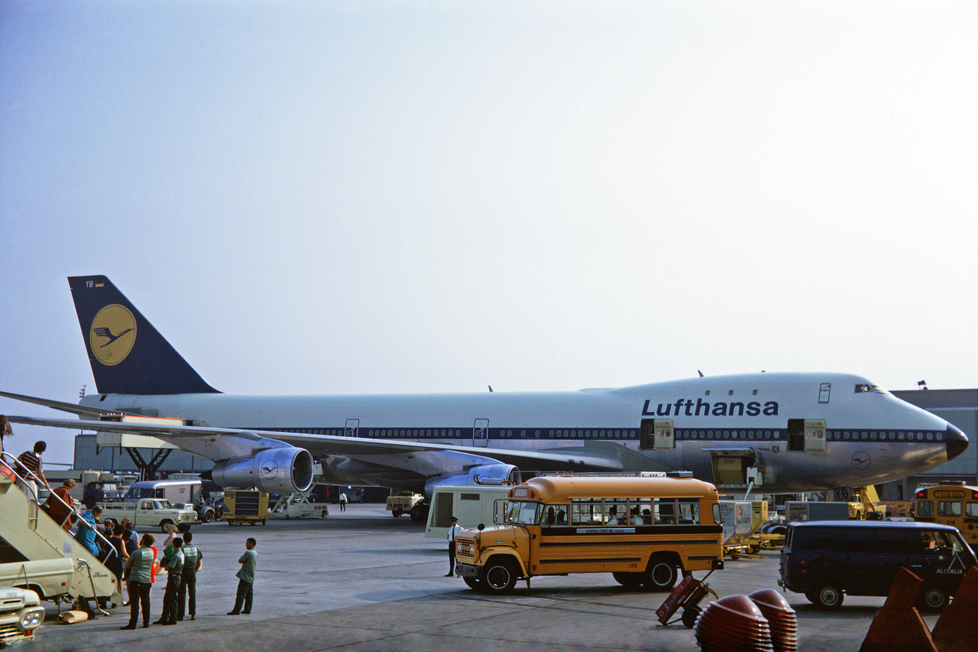 Shame about the ground equipment, I couldn't get a better position!